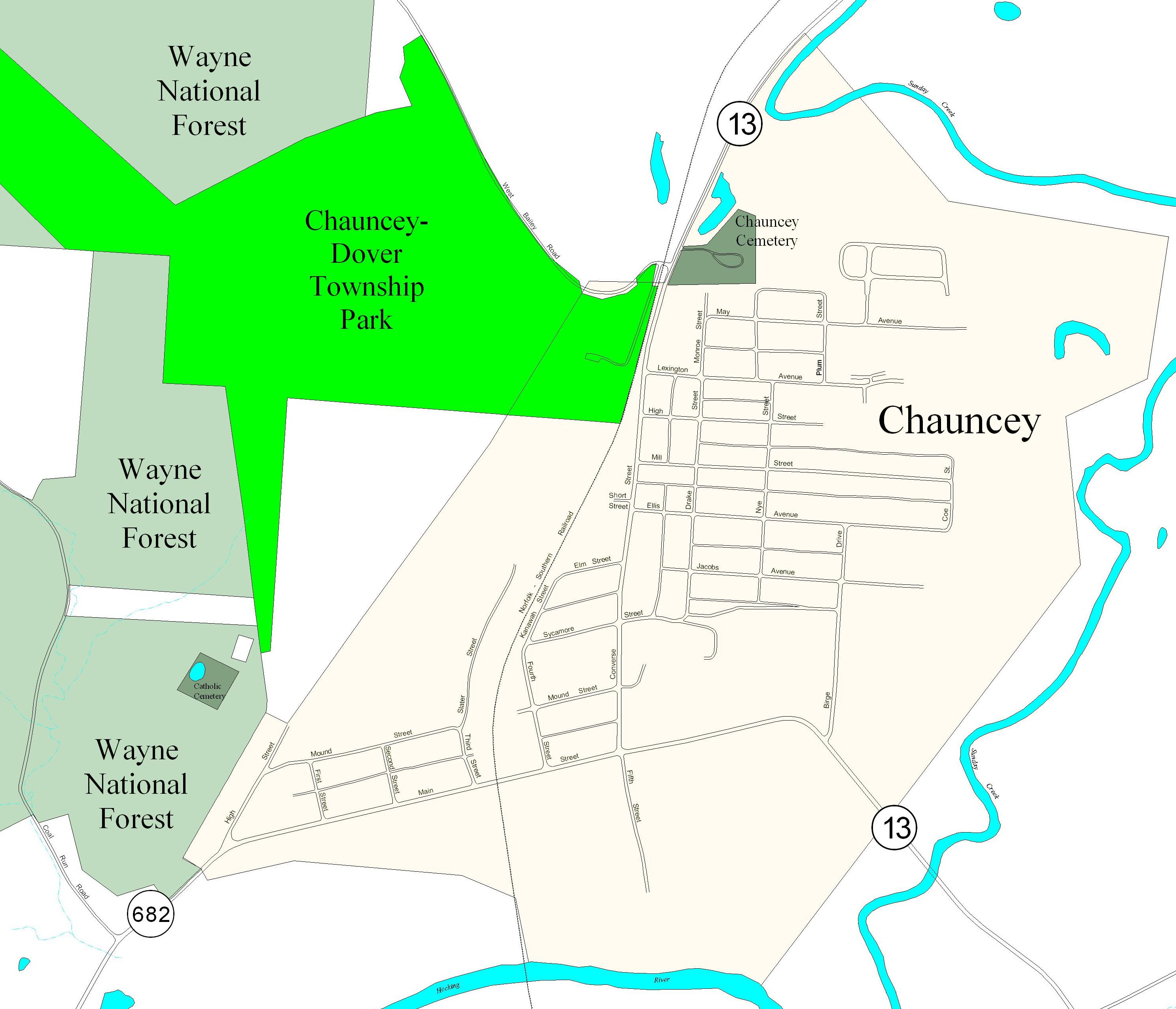 Political map of Chauncey, an incorporated village in Dover Township, Athens County, Ohio, United States of America. Created with ArcView GIS 3.3.